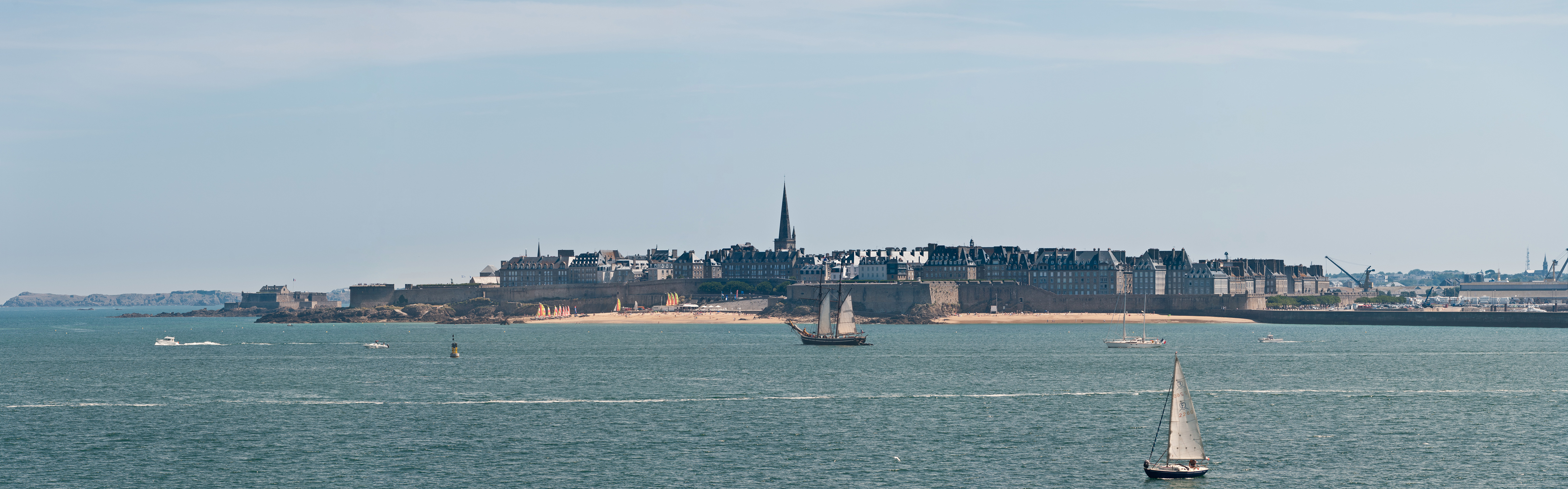 Saint Malo's walled city as viewed from Dinard from the south-west.